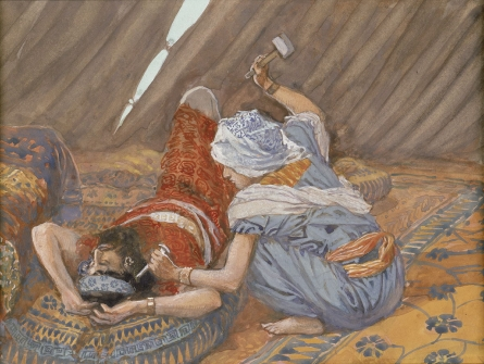 Jael Smote Sisera, and Slew Him, circa 1896-1902, by James Jacques Joseph Tissot (French, 1836-1902) or follower, gouache on board, 5 7/16 x 7 3/8 in. (13.9 x 18.8 cm), at the Jewish Museum, New York